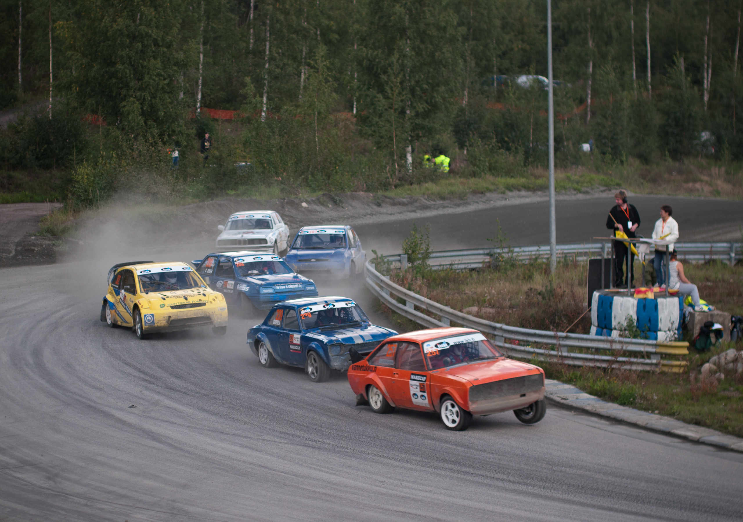 Autokrossi class in Finnish Rallycross Championship in Hyvinkää. Kristian Rintaluoma, Kimmo Siipola, Tomi Rakkolainen, Christian Jensen, Tero Parkkinen and Sten Suvemaa.